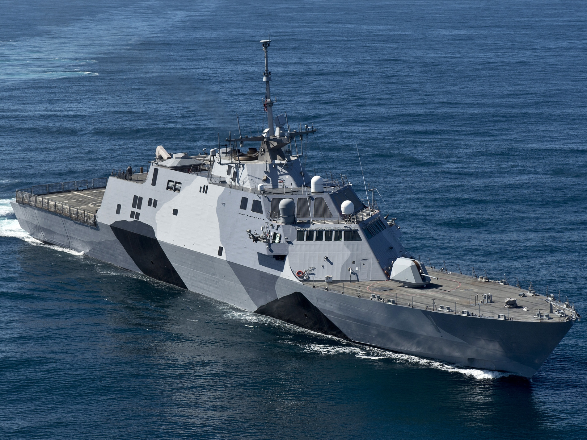 Crop of 130222-N-DR144-174. The littoral combat ship USS Freedom (LCS 1) is underway conducting sea trials off the coast of Southern California. Freedom, the lead ship of the Freedom variant of LCS, is expected to deploy to Southeast Asia this spring.